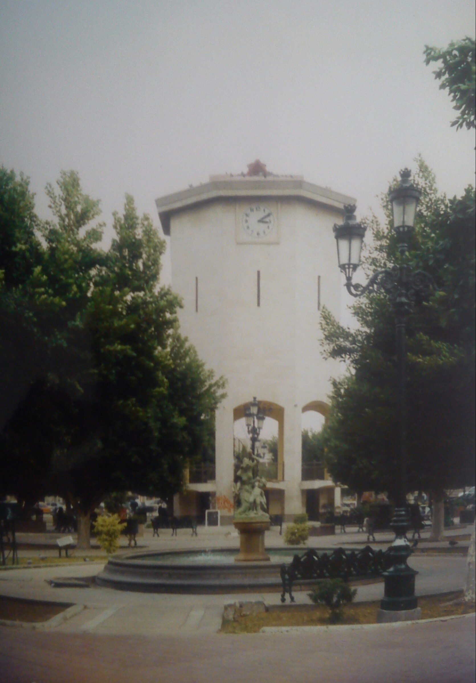 The main tower of the Central Plaza, in the city of Torreón, State of Coahuila